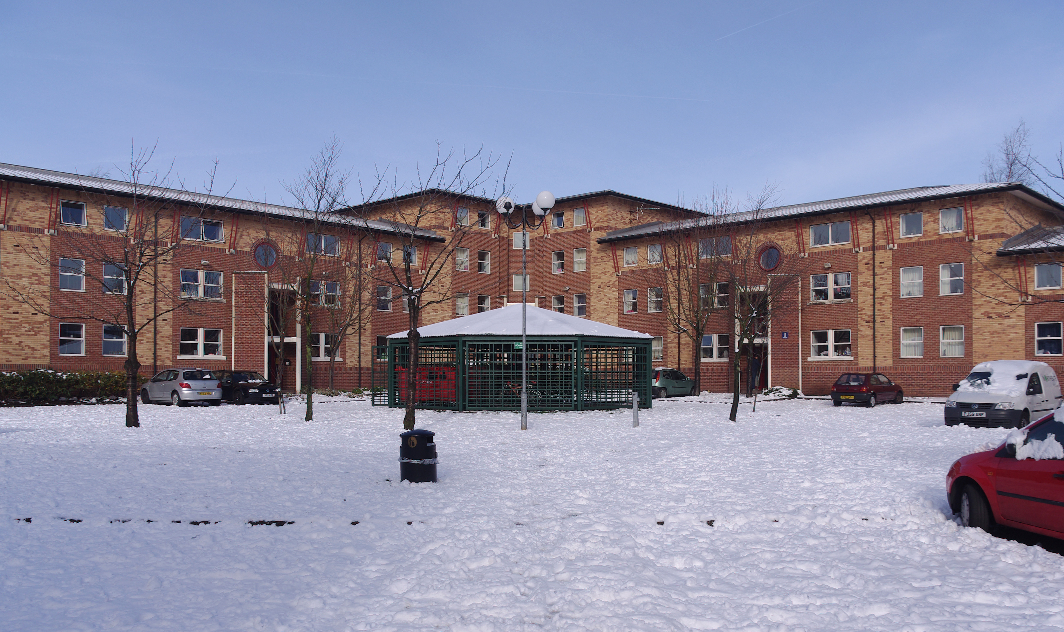 Snow on Nottingham Trent University's Clifton Campus. This is Peverell Hall of Residence.